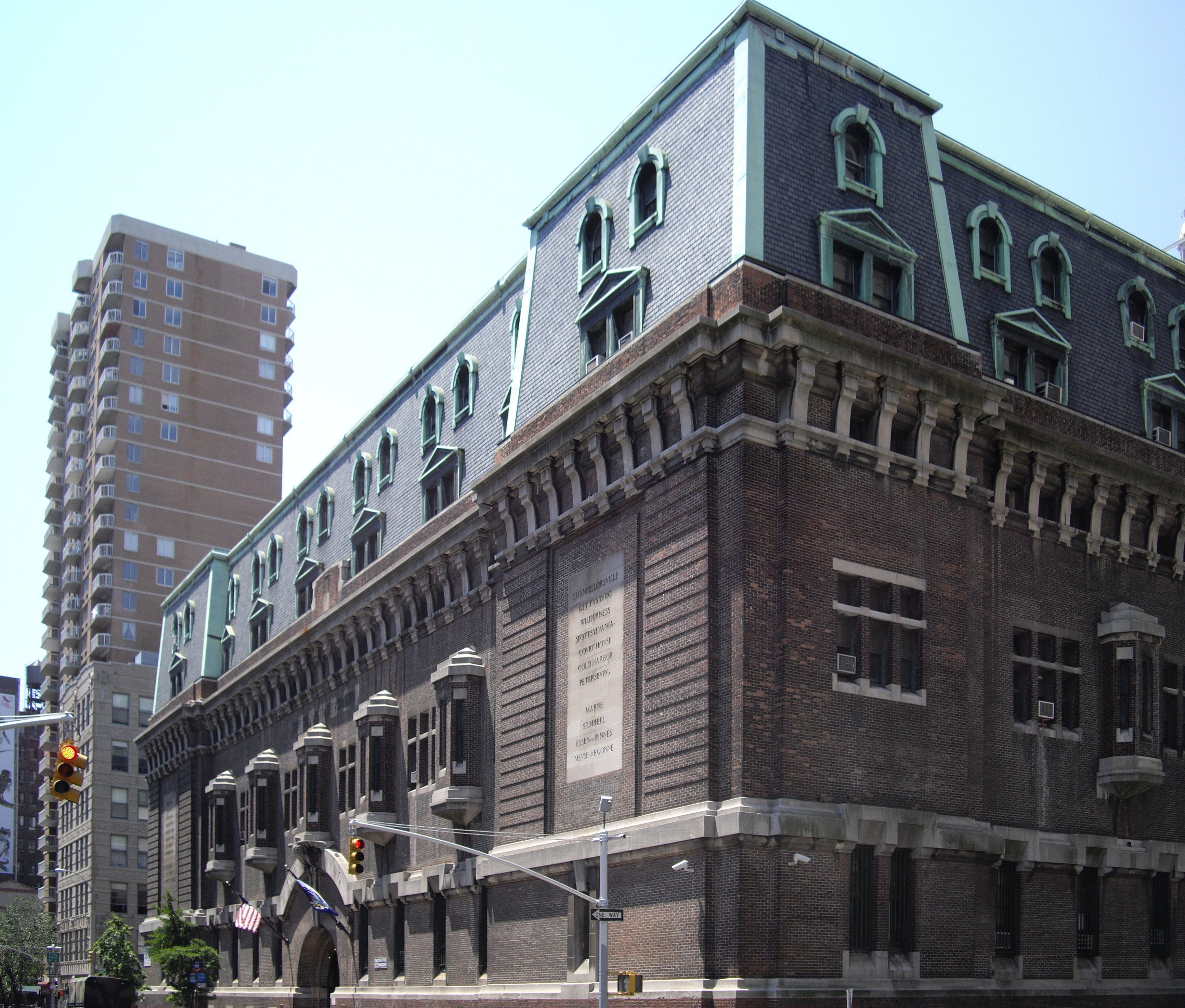 en:69th Regiment Armory, on Lexington Avenue between 25th and 26th Streets, looking south across Lexington Avenue and 26th Street, New York, New York. NYCLPC designation 1983. Guidebook map 8.